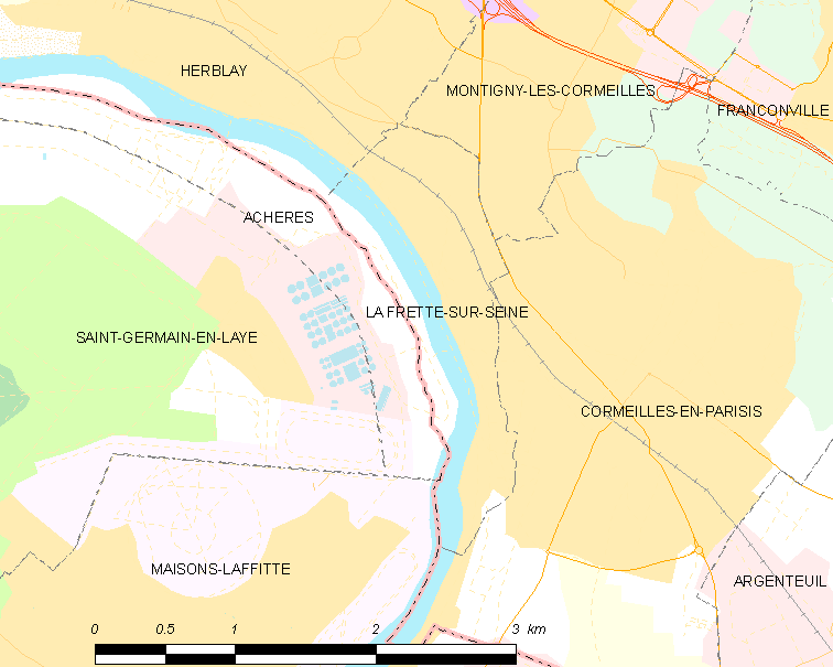 Map of French municipality La Frette-sur-Seine